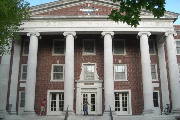 Memorial Hall was the subject of litigation in the early 2000s.